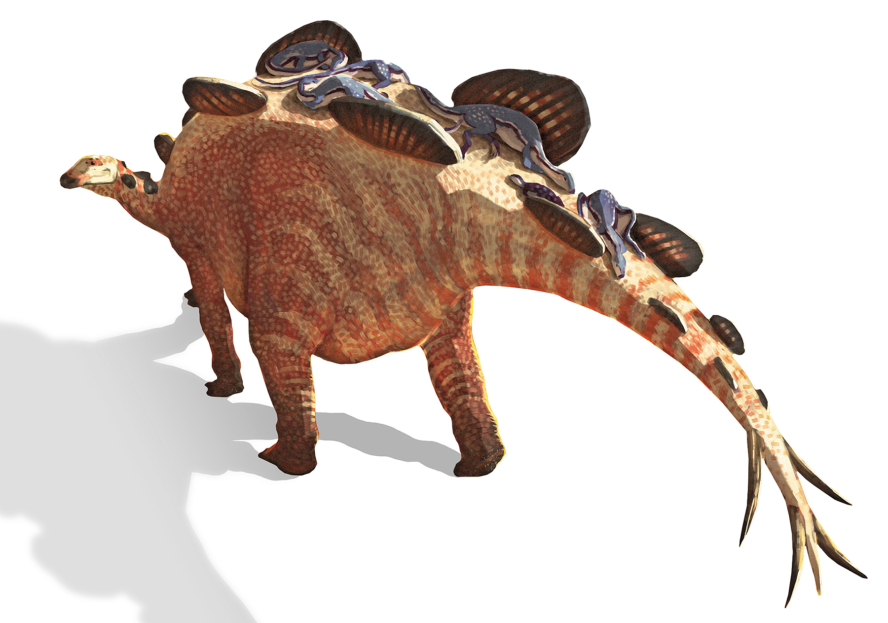 Hesperosaurus with sleeping Othnielia.